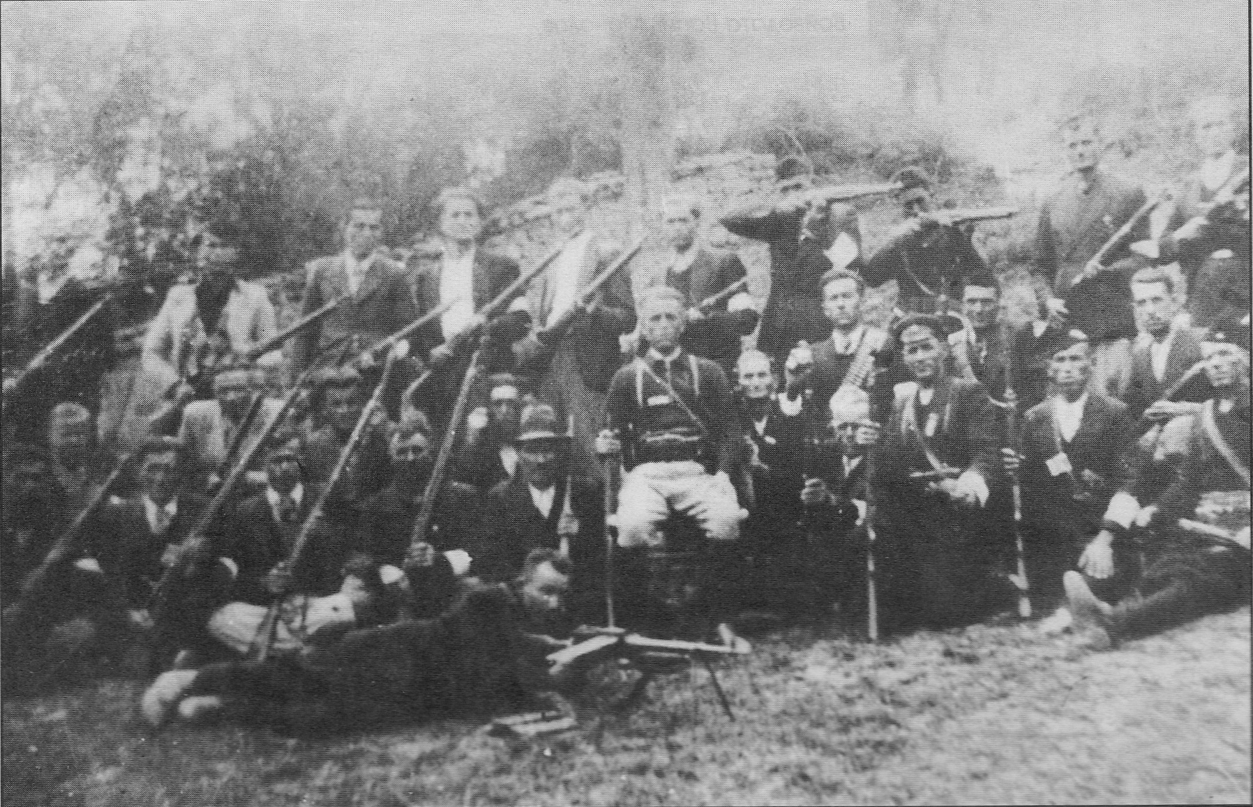 Starichani cheta 1943